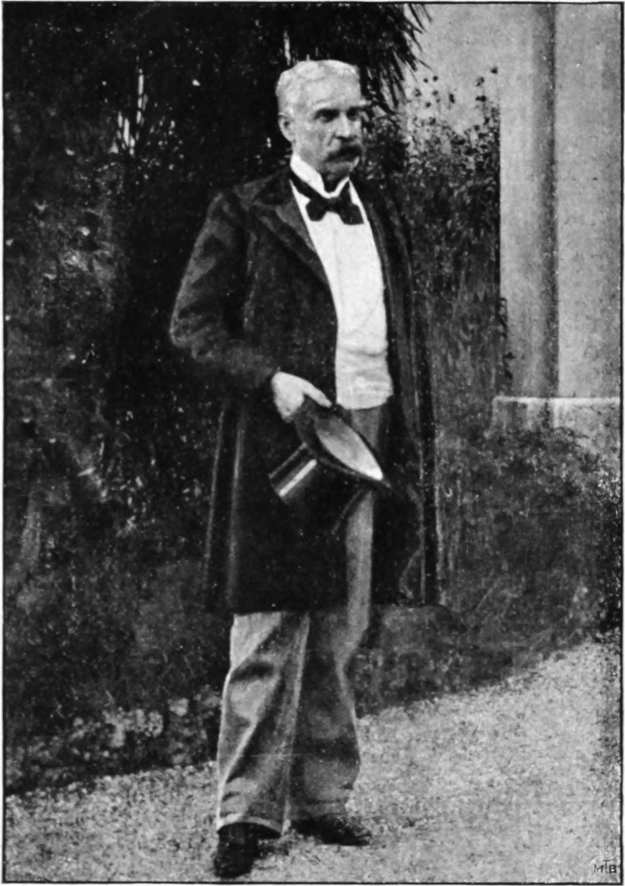 Image from book: Leopoldo Pullè, Patria Esercito Re, Ulrico Hoepli, Milan, 1908. - Antonio Guglielmi, mayor of Verona from 1883 to 1887